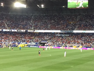 Action during the 2017 CONCACAF Gold Cup match between Honduras and Costa Rica.